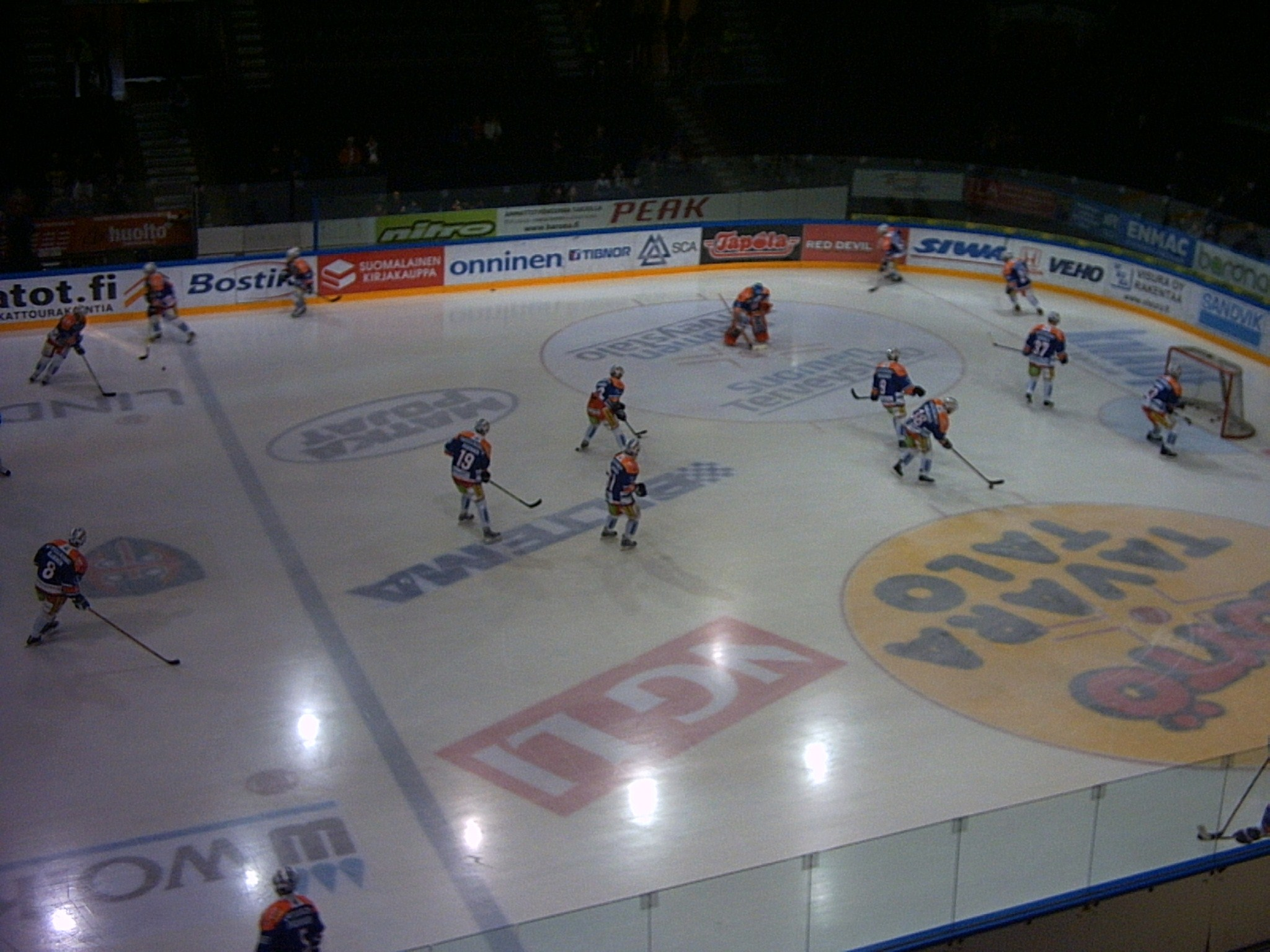 Tappara train before match Tappara-HIFK